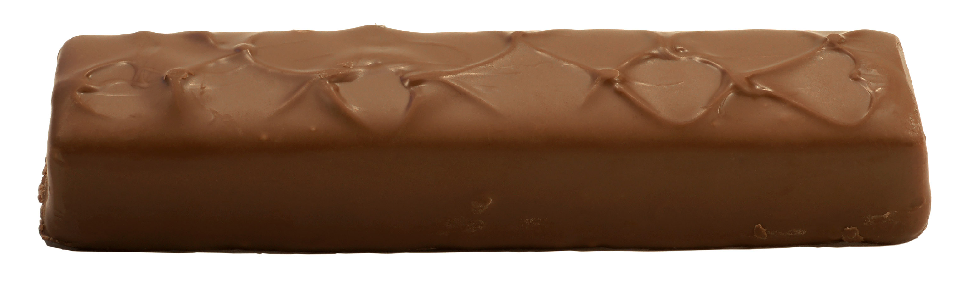 A 3 Musketeers bar, shown here whole.